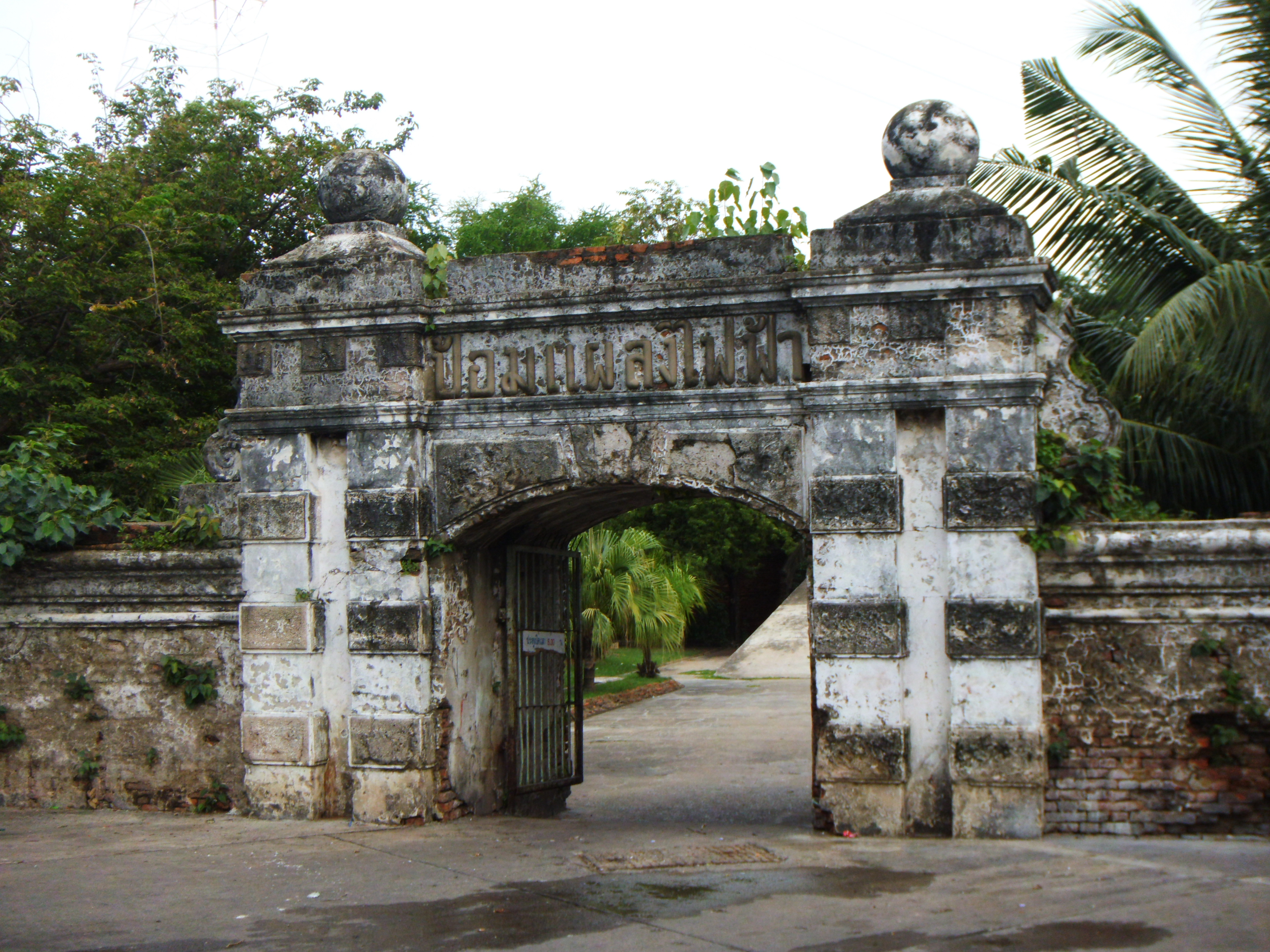 ป้อมแผลงไฟฟ้า